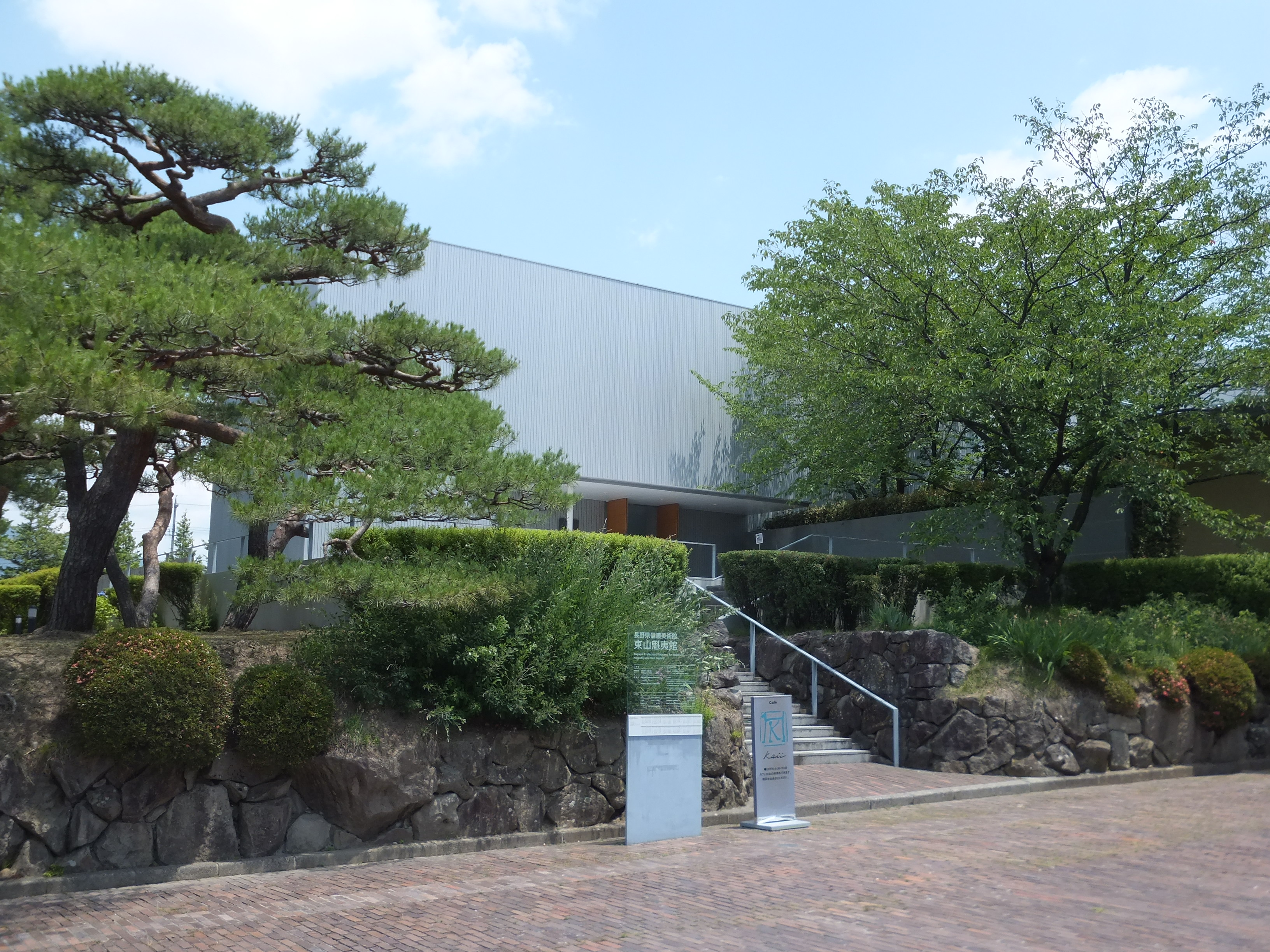 Kaii HIGASHIYAMA Gallery of Nagano Prefectural Shinano Art Museum, located in Nagano City, Nagano Prefecture, Japan.